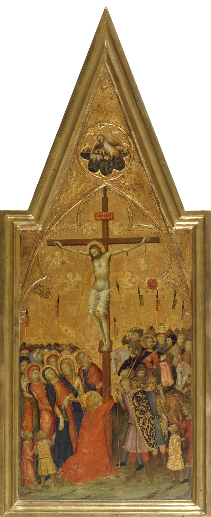 Originally the central panel of a portable triptych (three-panel painting), this work reflects the mid 14th-century demand for lively, crowd-filled paintings featuring key moments in Christ's life. The painter has enhanced the worshipers' connection to sacred history by having the participants in the scene wear contemporary costumes and using stippled gold leaf to imitate the texture of the chain mail worn by soldiers. Perhaps most important, the Virgin's collapse into the arms of her companions and her anguished facial expression convey the depth of her participation in her son's suffering. For more information on this panel, please see Zeri catalogue number 24, pp. 42-43.